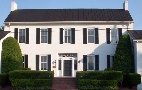 The William Forst House (also known as the Clark House) in Russellville, Kentucky. This was the location where Kentucky's Confederate Government was formed. It is part of the Russellville Historic District and is listed on the National Register of Historic Places